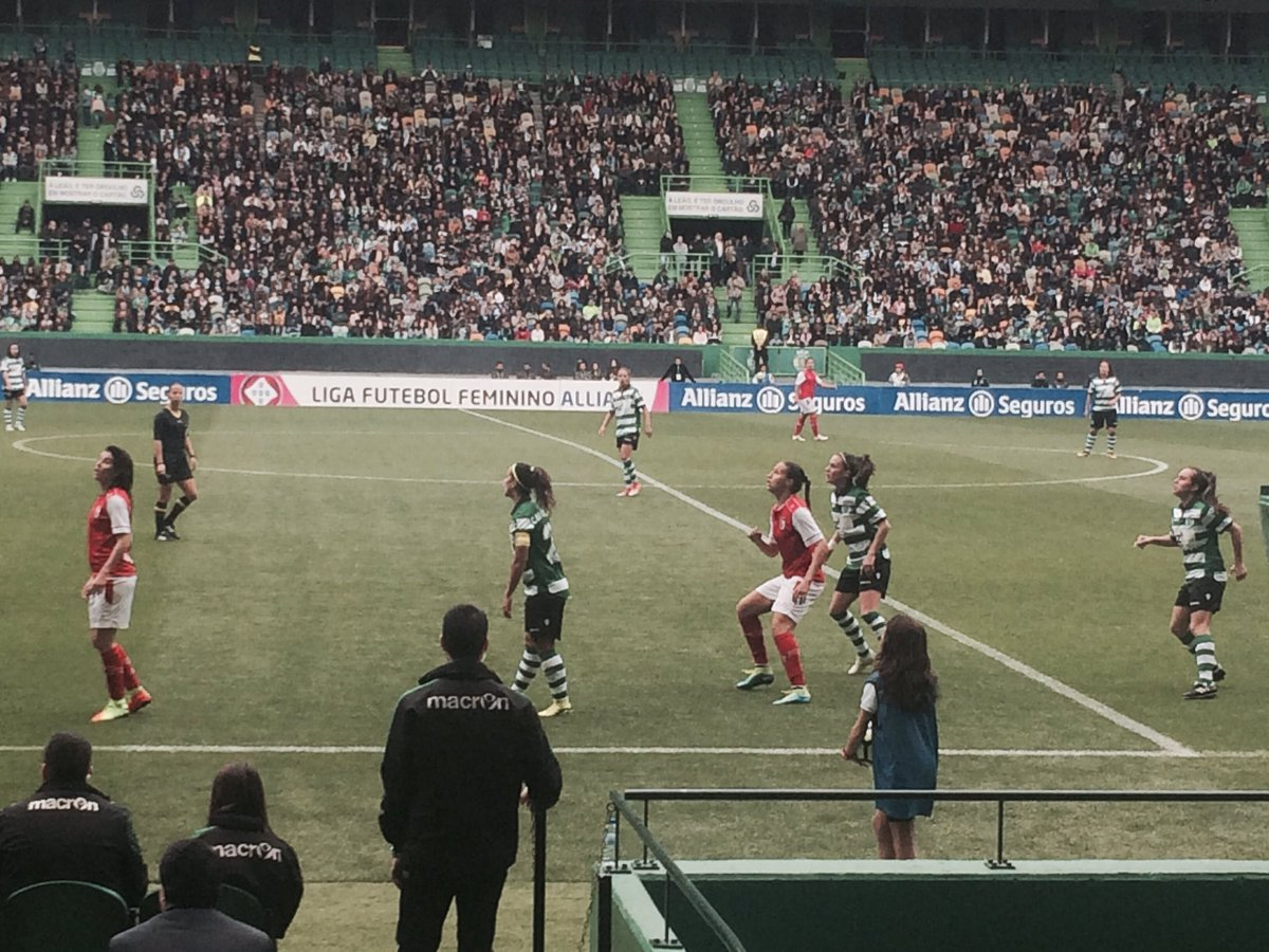 Sporting CP x SC Braga (Women's Soccer) at the José Alvalade Stadium